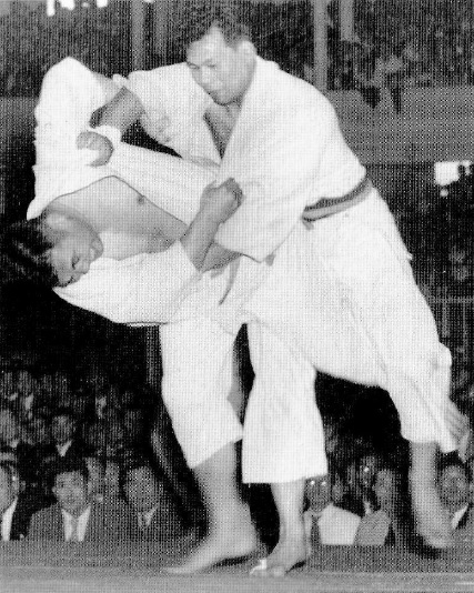 Japanese judoka, Yoshihiko Yoshimatsu(left) and Toshiro Daigo(right), at the final of All-Japan Judo Championships in 1951.